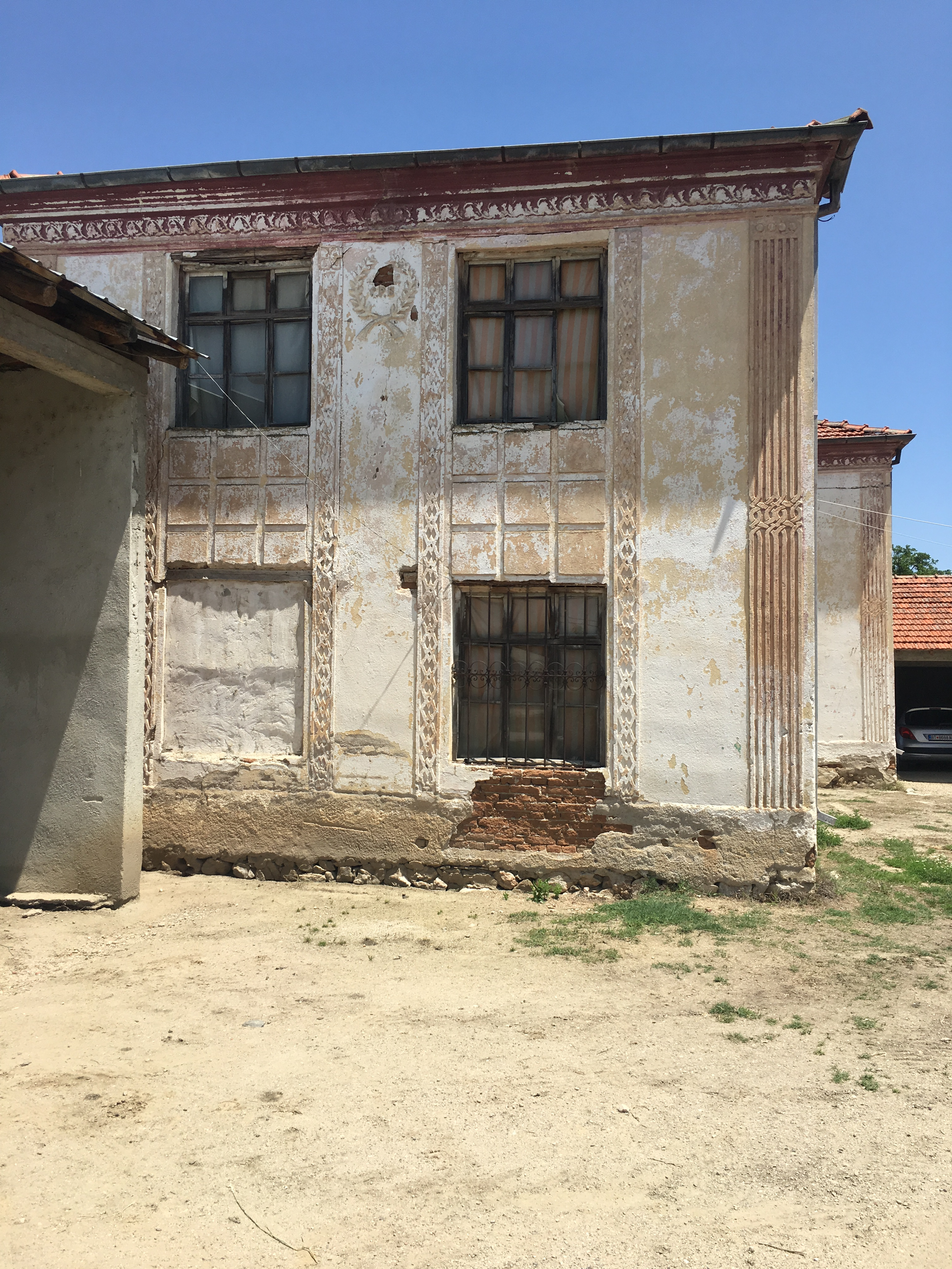 A traditional house in the village of Radobor